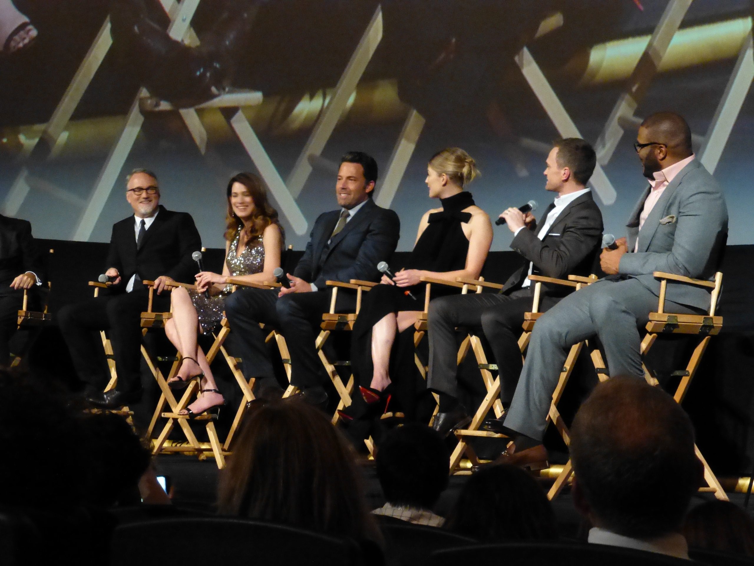 Gone Girl Premiere at the 52nd New York Film Festival, October 2014.